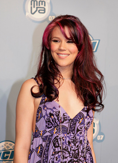 Joss Stone was an attendee at the 2007 MuchMusic Video Awards, held the night of Sunday, June 17, 2007 in Toronto, Ontario, Canada.